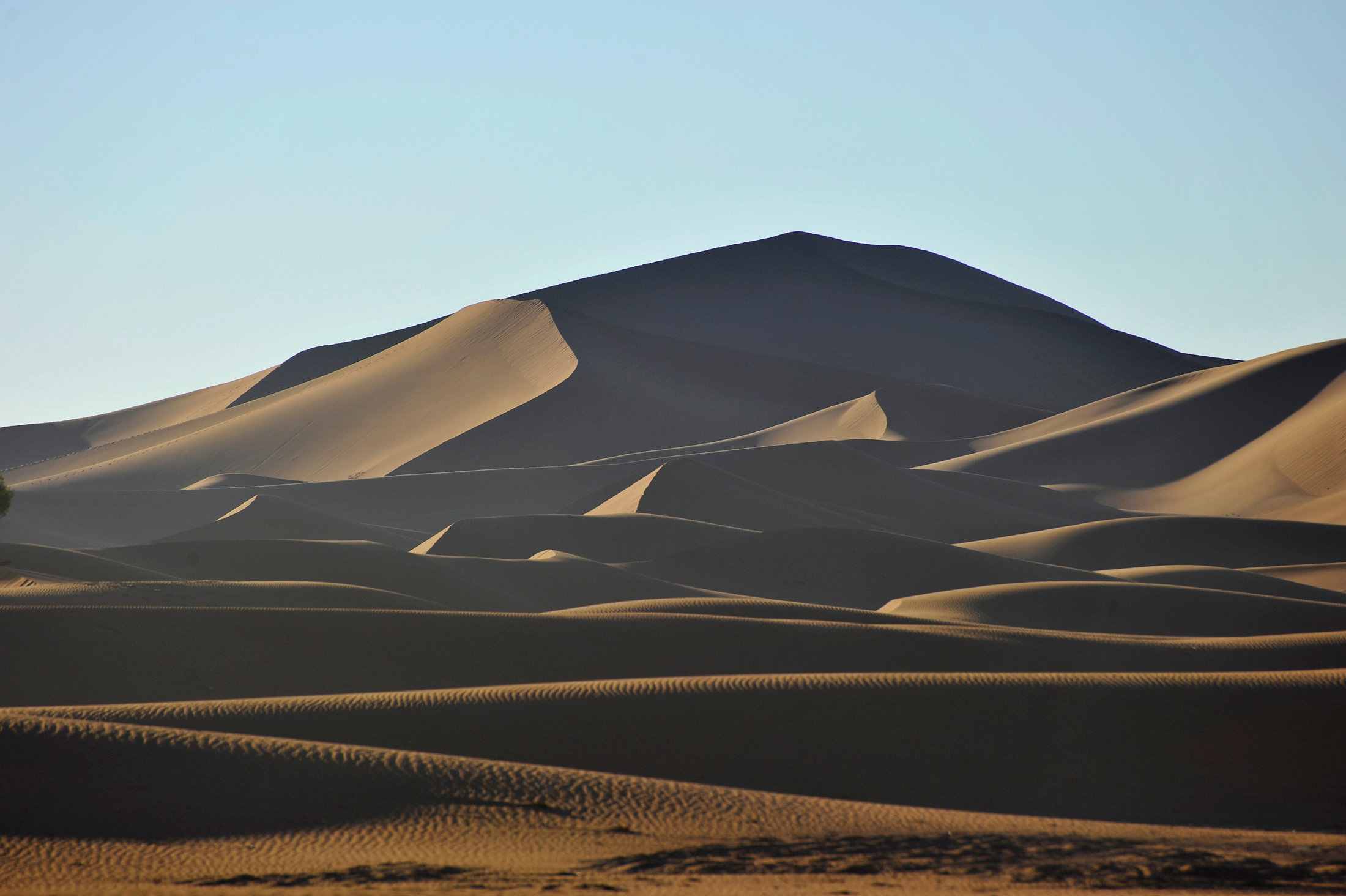 Erg Chegaga dune, shot done in the first morning